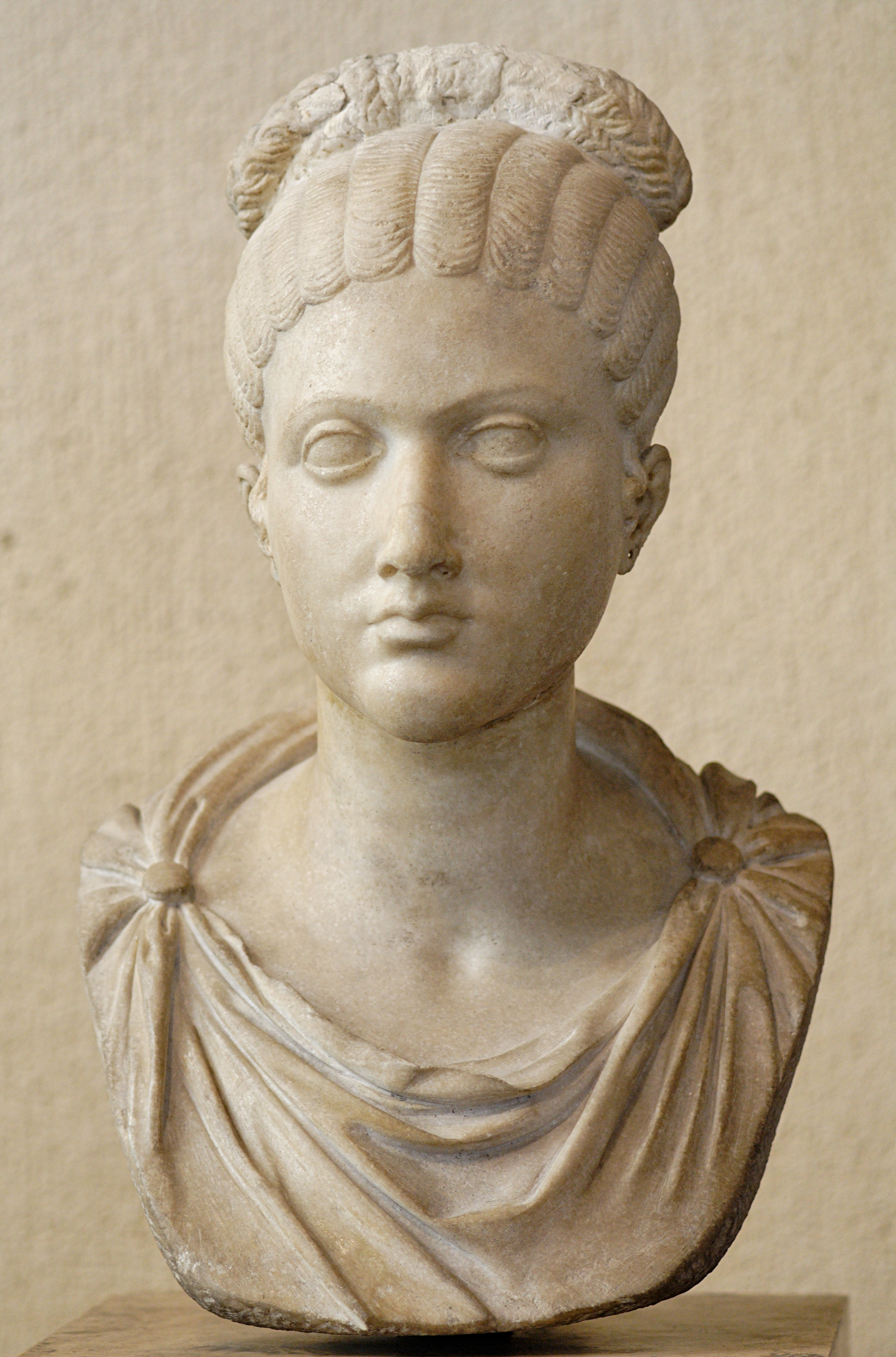 Female portrait. Marble, Roman artwork, last quarter of the 1st century BC.